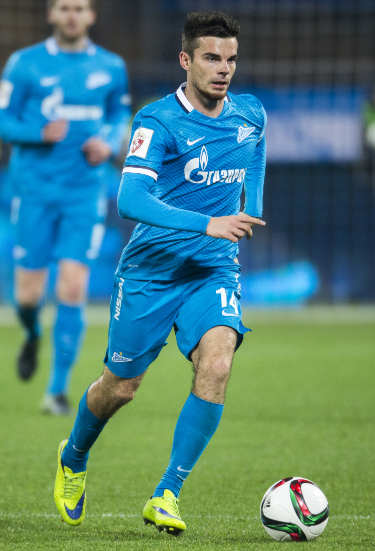 Artur Yusupov